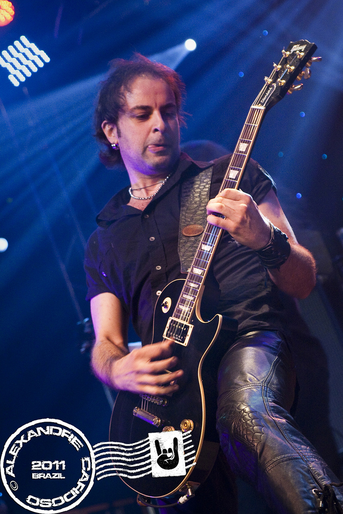 Italian guitarist Luca Princiotta playing with Doro at Carioca Club in São Paulo, Brazil, on 24/04/2011